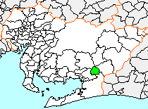 Modified by me from Wikipedia's file